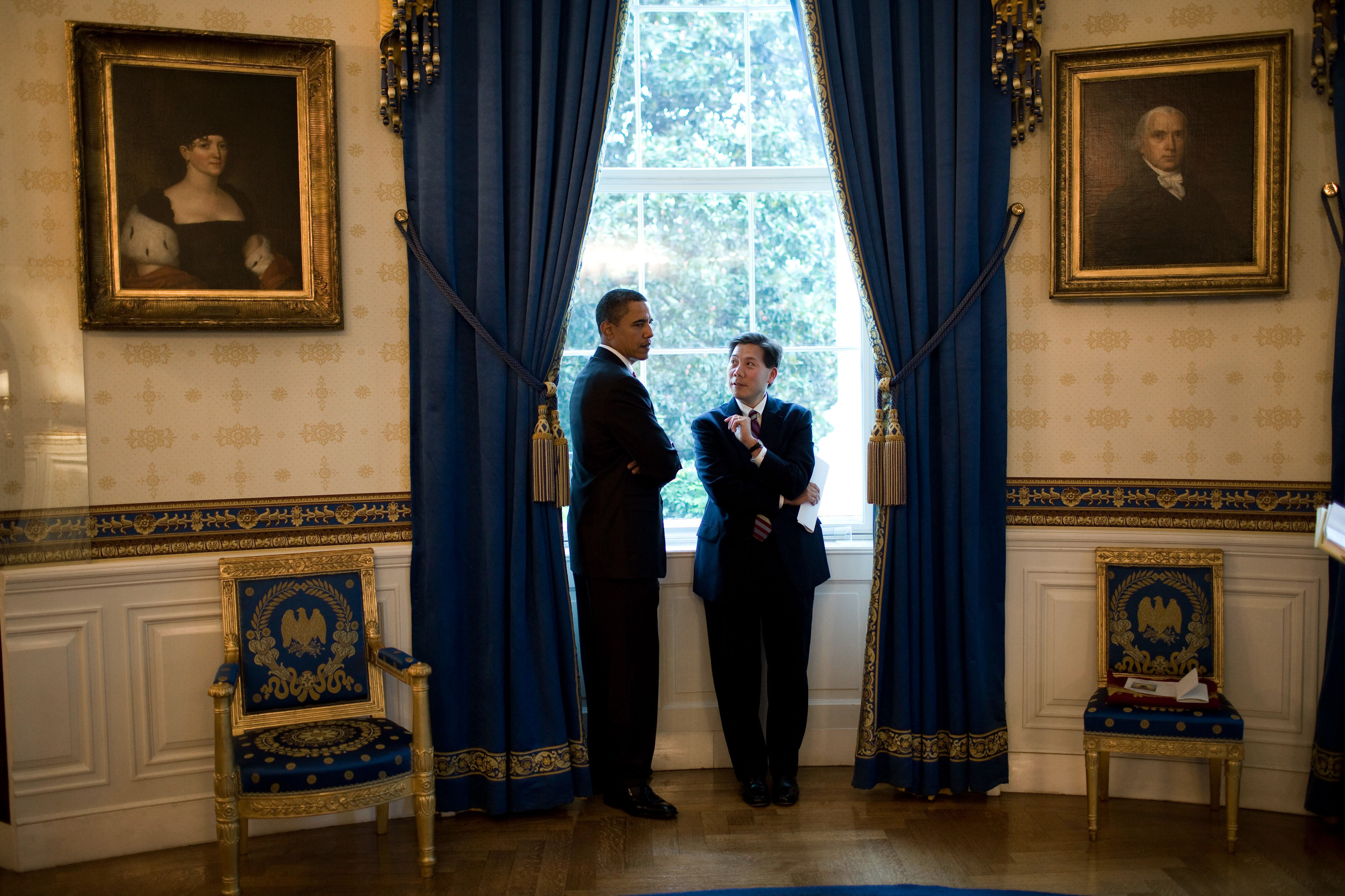 President Barack Obama talks with Chris Lu, an assistant to the President and cabinet secretary, in the Blue Room of the White House, Oct. 14, 2009.